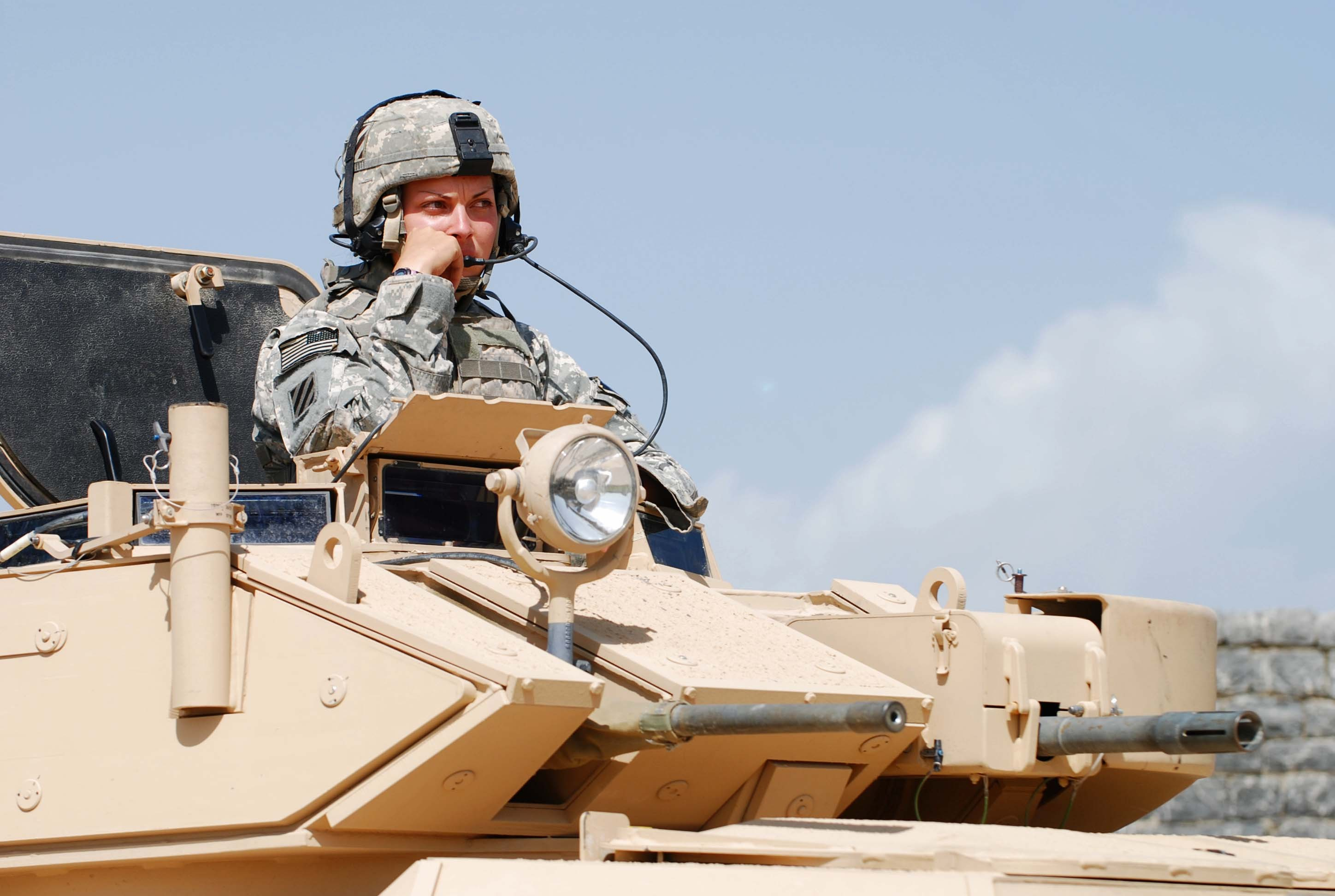 Army Spc. Hailynn Talbot, a gunner from 3rd Platoon, 546th Company, 385th Military Police Battalion, 3rd Infantry Division, sits in the turret of an M-1117 armored security vehicle, packing both a Mk-19 grenade launcher and a .50 caliber machine gun.